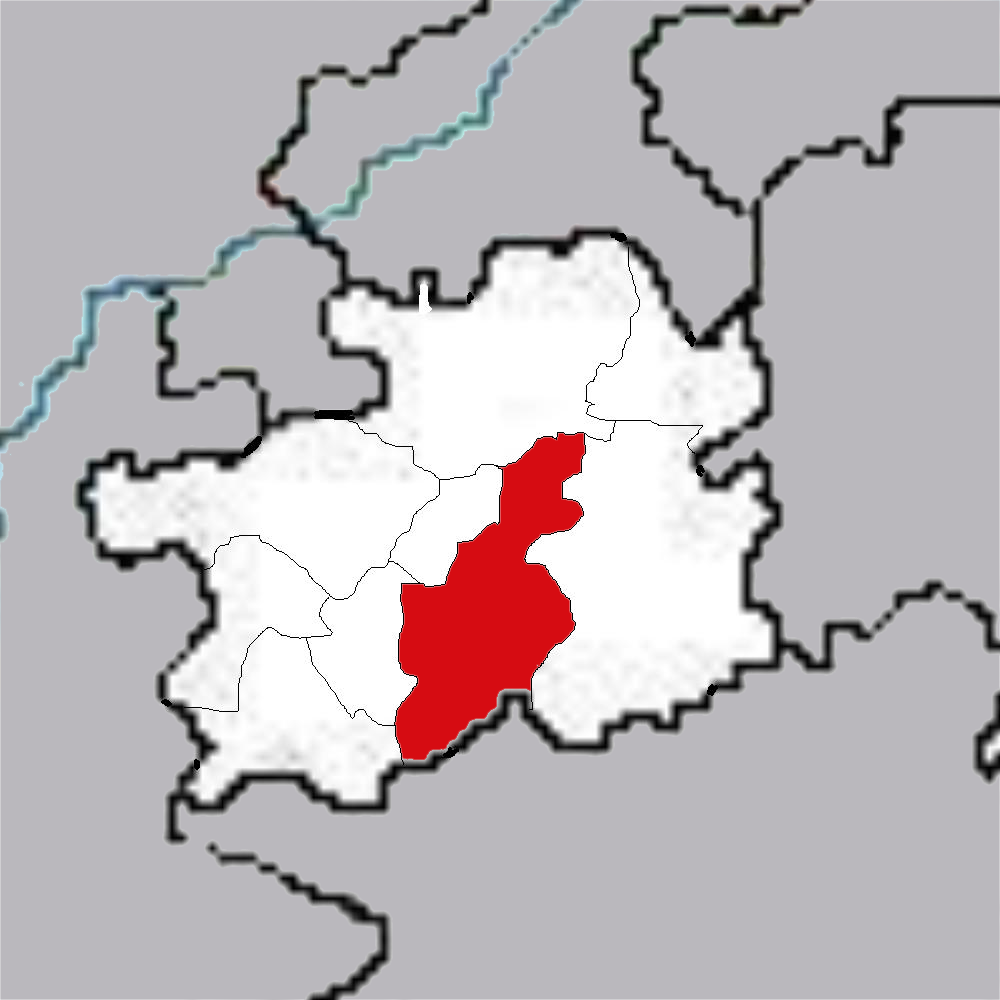 Maps of Guizhou Province of China